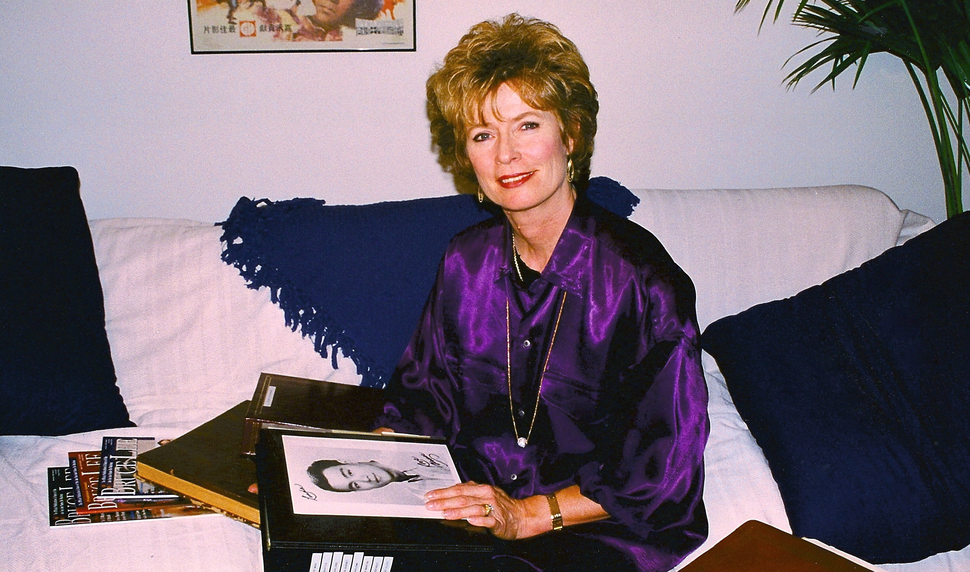 Bruce Lee's widow, on a shoot for documentary about Bruce Lee. Part of a series called "The Greatest" which first aired on TLC in October of 1998, produced by LMNO Productions.